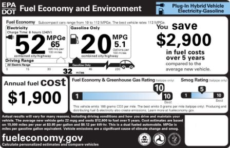 US EPA's fuel economy and environmental performance label for the 2012 Fisker Karma plug-in hybrid